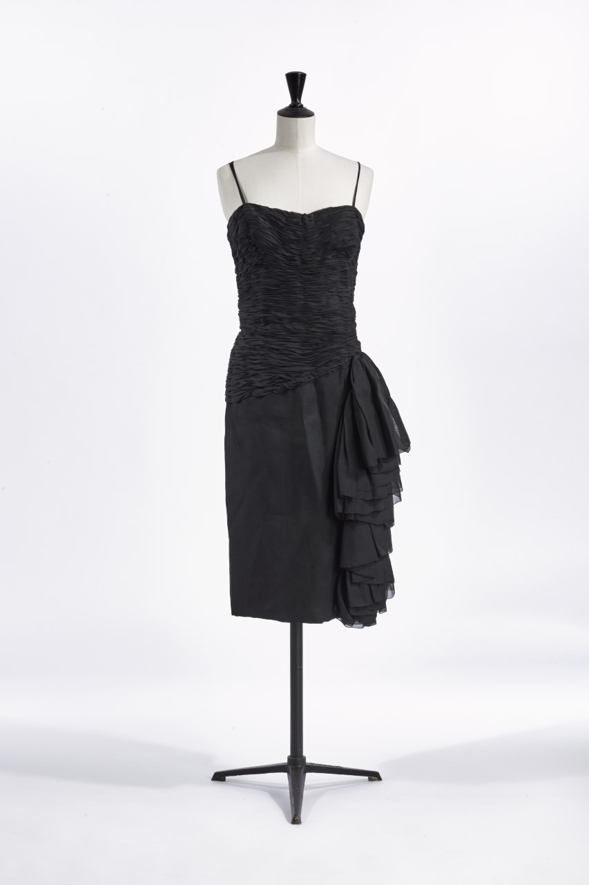 Cocktail dress, Italy (1960) MoMu Study Collection, ST80423, (Loan University of Antwerp) Photo by Stany Dederen